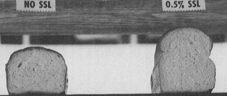 Photograph showing the effect of SSL on bread volume